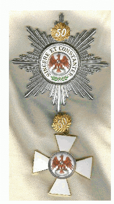 Order of the Red Eagle